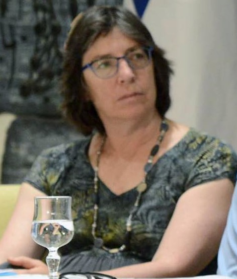 A study event at Beit HaNassi, in preparation for Tisha B'Av, on the topic "Beit Midrash and the Meaning of Disputes." Monday, July 31, 2017. Photo Credit: Mark Neyman / GPO.